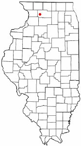 Category:Illinois city locator maps